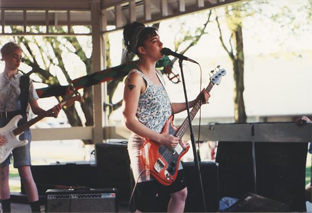 Bikini Kill performing live at Sylvester Park in Olympia, Washington on May 1, 1991.